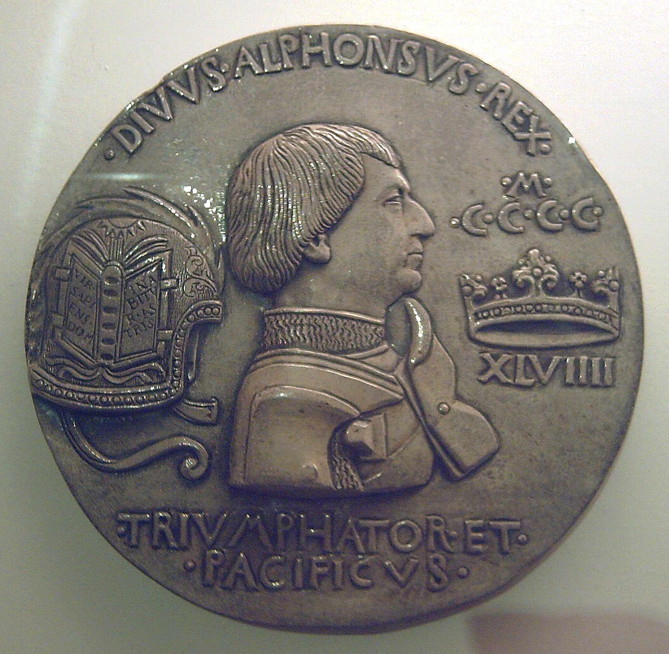 Medal of Alfonso V of Aragon.